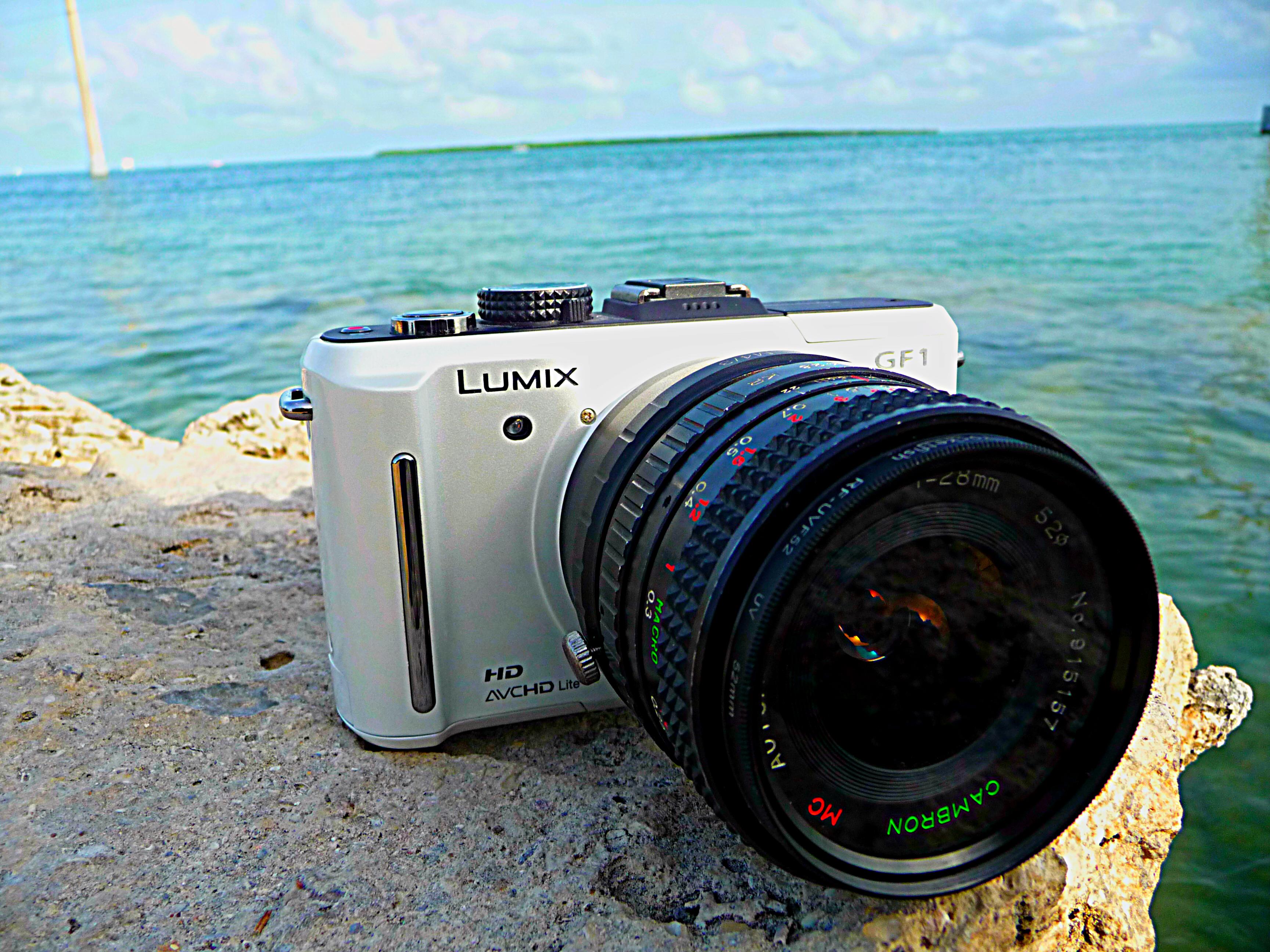 Florida Keys 7 mile bridge 3